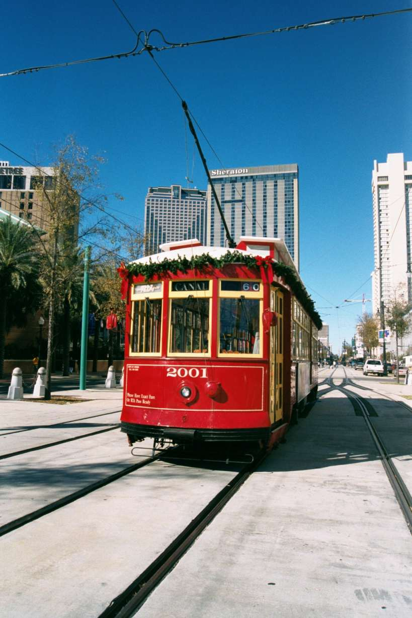 Red Canal Streetcar, New Orleans, before Katrina. Photo by Falkue from Wikipedia.